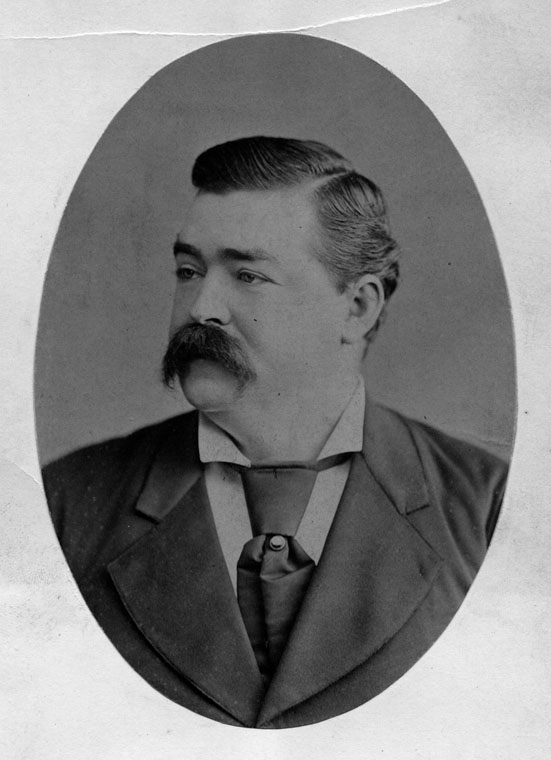 Portrait of Thomas E. Rowan, born in New York State in 1842. Came to San Francisco with his parents in 1858 and to Los Angeles in 1860. Here his father opened the American Bakery. Thomas obtained a position with I. W. Hellman, who had a general merchandise store on the corner of Commercial and Main Streets, where the Farmers & Merchants National Bank stood so long. Entered the Pacific Union Express, later its head, which suspended and was taken over by the Wells, Fargo & Co. Express. He then went into the Hellmans' bank serving there until elected to public office, filling several different ones, including Mayor of Los Angeles from 1892-1894. He died on March 25, 1901.